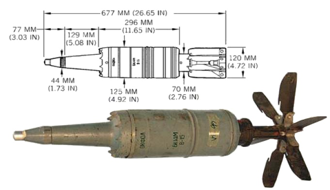 125mm BK14M HEAT round